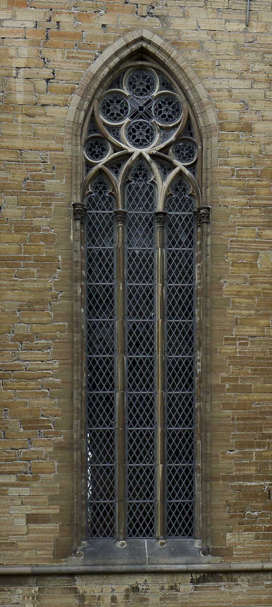 Linköping Cathedral, Linköping, Sweden. Church window.